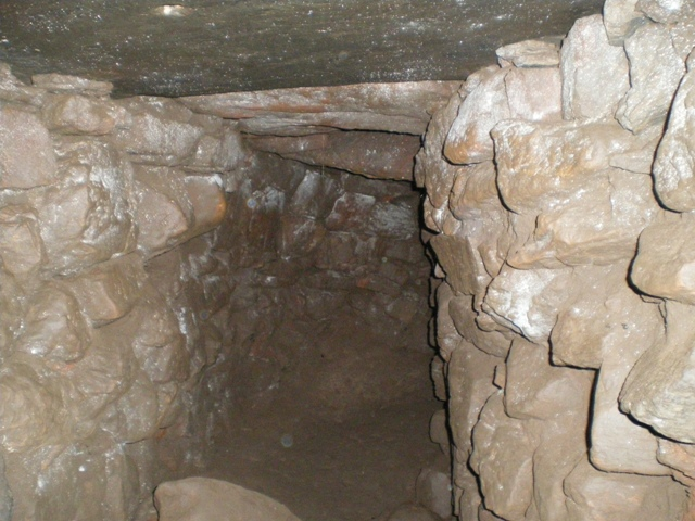 Entrance passage to the Ardross souterrain. This narrow, dark and winding entrance passage to the souterrain is protected by a modern manhole cover - lift it up, and this is what you see. Not having a headtorch, I ventured no further on this occasion. Perhaps another time, as it looks rather interesting. There's a bit more info on this one at [1]. The purpose of souterrains is open to some conjecture, being variously interpreted as animal shelters and storage areas. However the differing construction methods for them, and the fact that some have stone roofs, suggest that they would have been dark, damp and cool (probably downright cold), which implies a likelihood of them being storage for foods rather than living animals in many cases. On the whole, they had some sort of house or building above them, the entrance being in the floor of the building, or in a yard surrounded by several buildings.